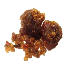 Author:en:User:Sjschen, Source: Self made, Commiphora wightii resin